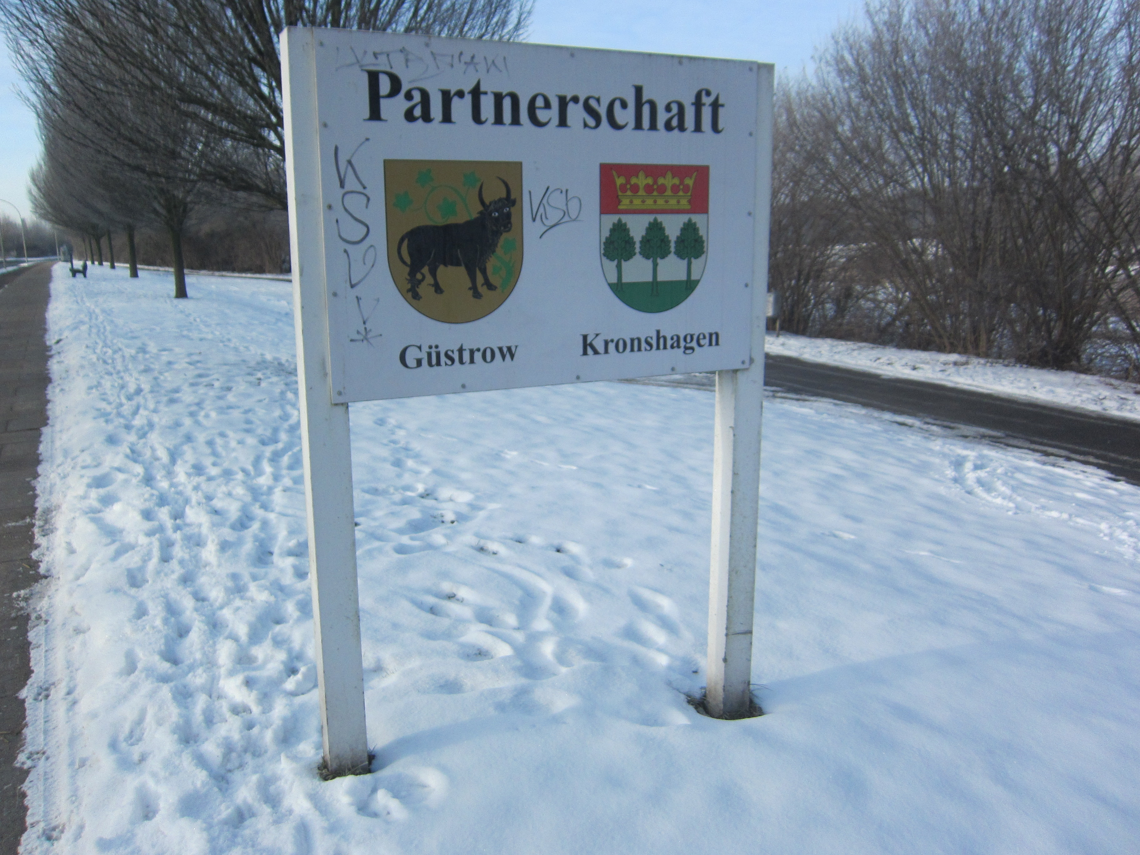 Twin town sign in Kronshagen